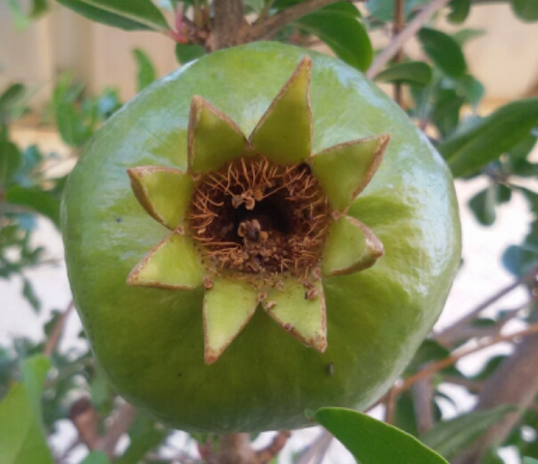 Unripe, green, pomegranate fruit.